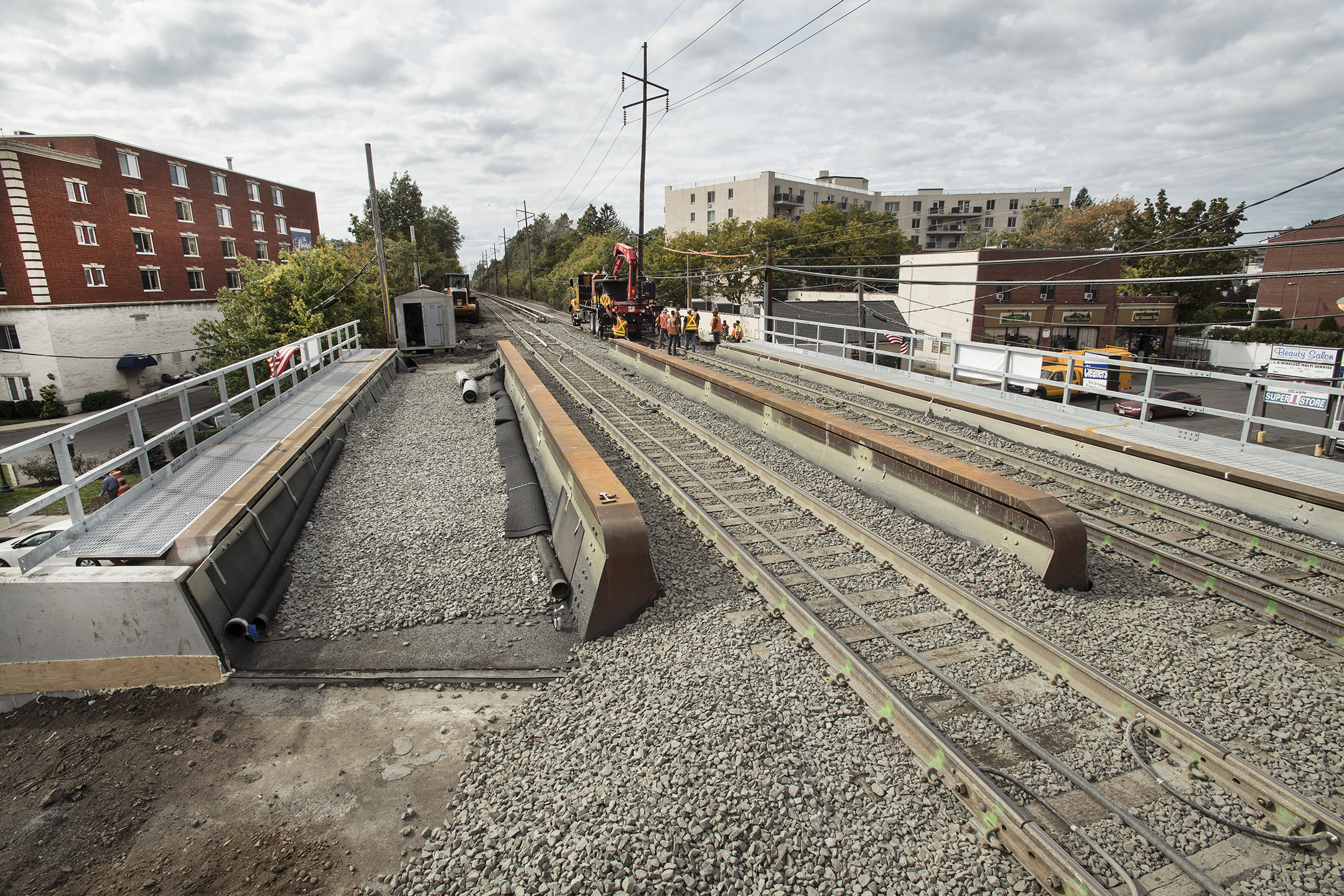 The Long Island Rail Road replaced the Post Avenue Bridge in Westbury – a span struck by dozens of overheight trucks in recent years resulting in train delays. Work was completed ahead of schedule on the weekend of October 21-22, 2017. Photo: Metropolitan Transportation Authority / Patrick Cashin.